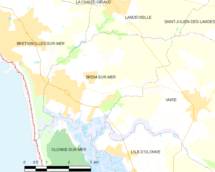 Map of French municipality Brem-sur-Mer